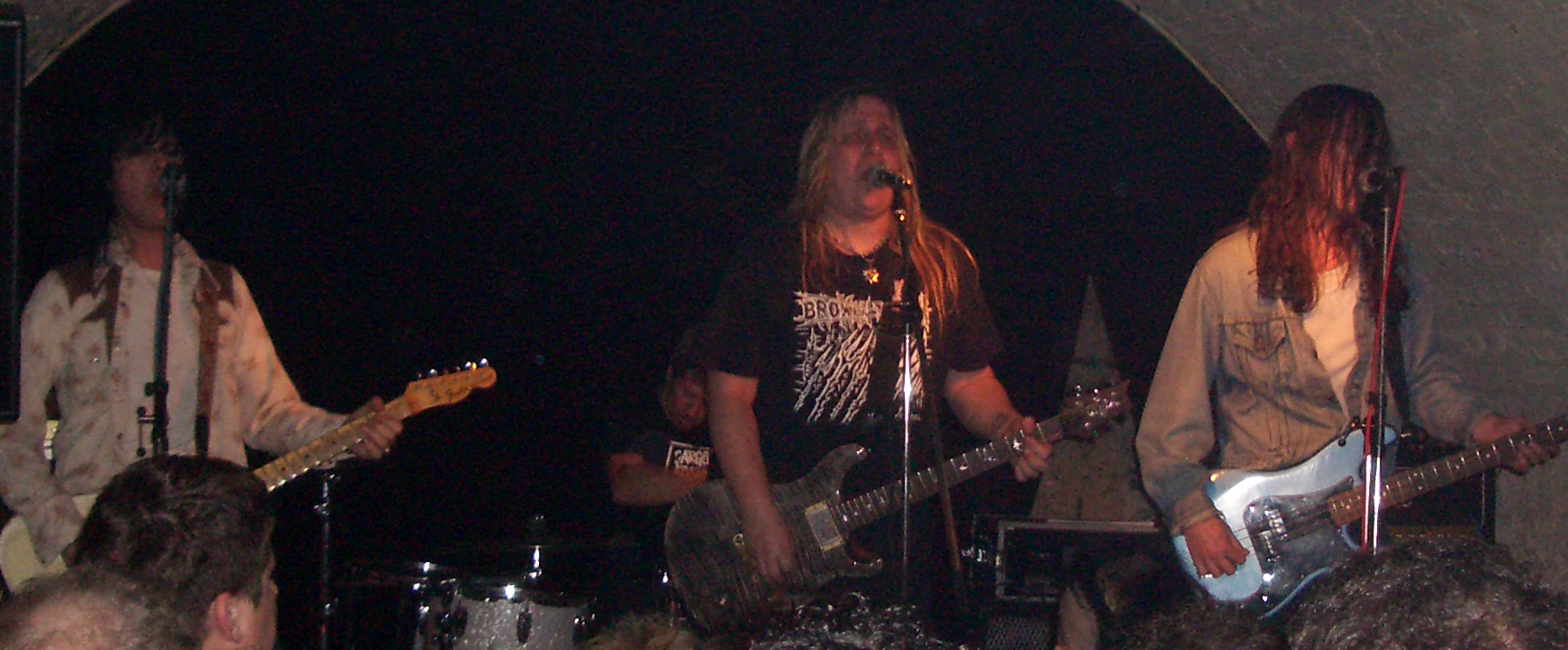 Rhino Bucket concert at Balthes, Ravensburg, January 2010